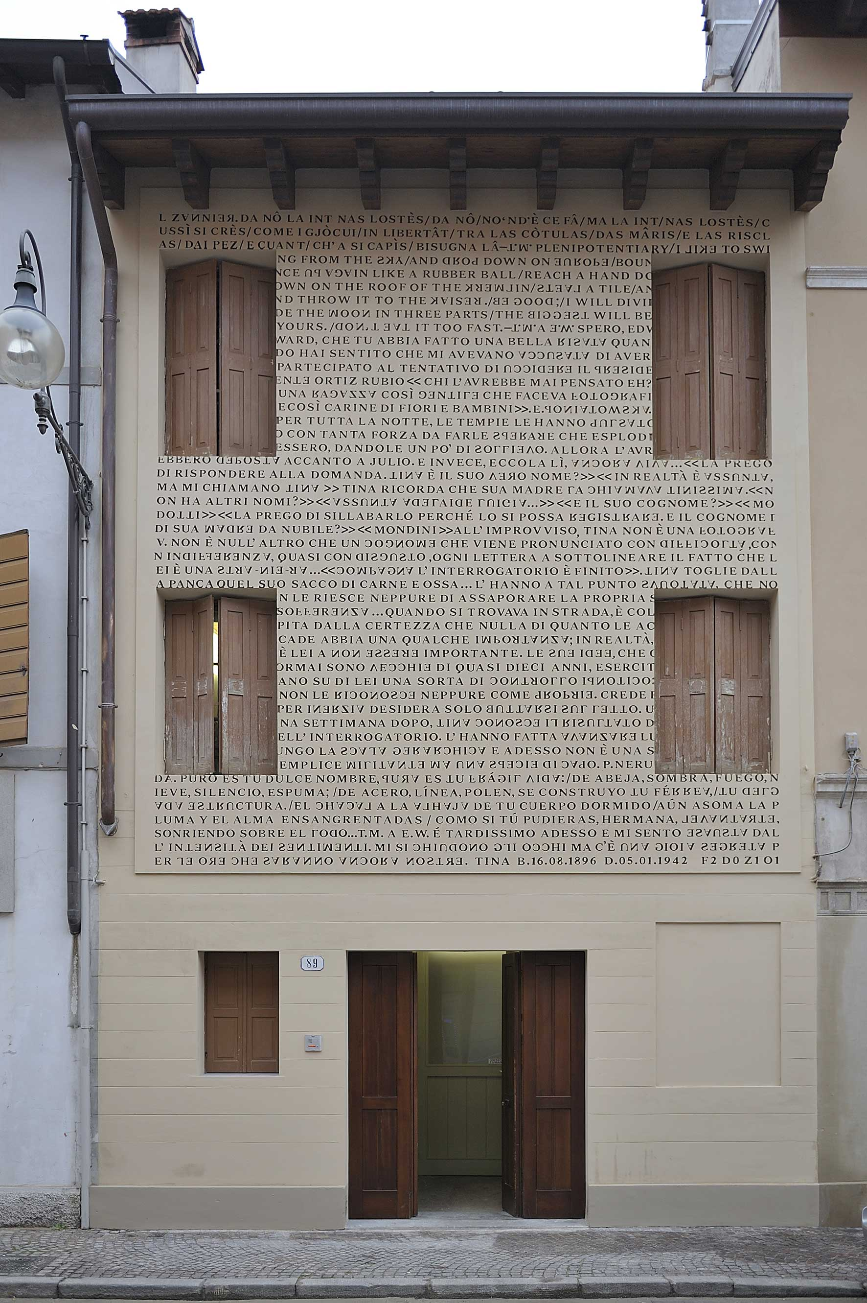 Tina Modotti birth's place